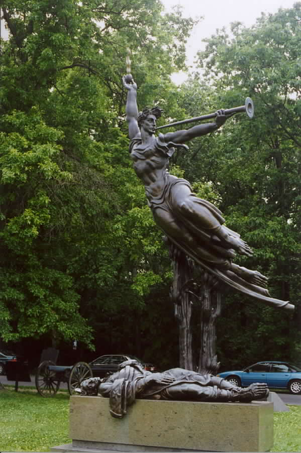 "Spirit Triumphant" by Donald De Lue, Louisiana Memorial on the Gettysburg Battlefield, 1971